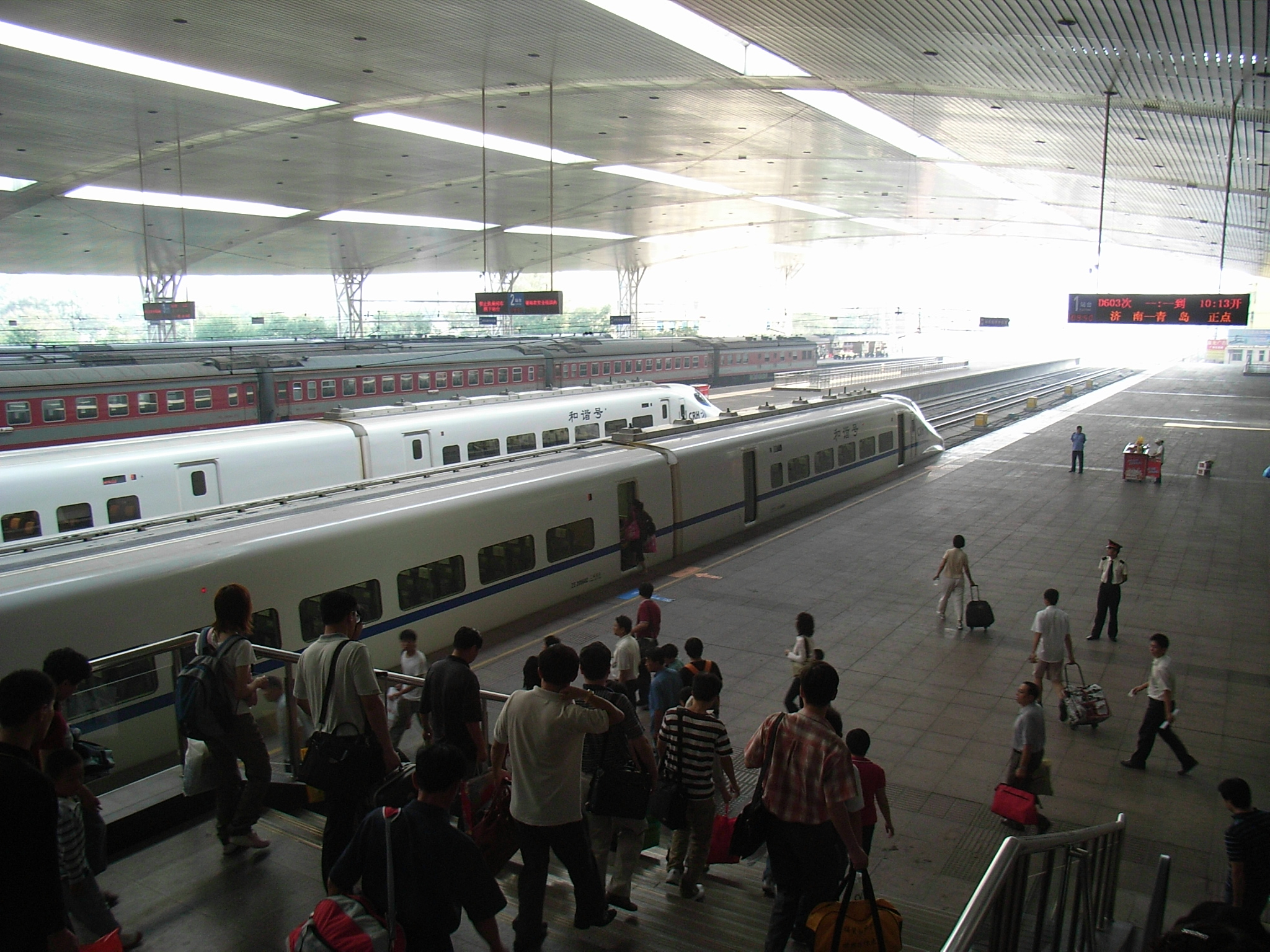 済南駅/济南火车站 Jinan Railway Station